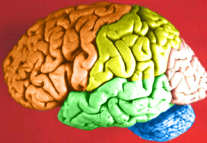 Human brain lateral view - Lobes Lobus frontalis Lobus parietalis Lobus temporalis Lobus occipitalis Sulcus lateralis Sulcus centralis Sulcus parietooccipitalis Incisura preoccipitalis Polus frontalis Polus occipitalis Polus temporalis The most rostral part of the Forebrain is the Cerebrum or Telencephalon made up of two Cerebral Hemispheres. The Cerebrum has an outer, highly stratified layer of gray matter called the Cerebral Cortex which is thrown into a series of folds or Gyri (singular = gyrus) which greatly increase the surface area of the cortex. The grooves between the gyri are called Sulci (singular = sulcus). Deep grooves are often referred to as Fissures. Deep to the cortex is the white matter along with several large nuclei located internally called Basal Ganglia. Note the Frontal, Temporal, and Occipital Poles. The Poles are reference points indicating the furthest extent of the Frontal & Temporal Lobes anteriorly, and the Occipital Lobe posteriorly. The Cerebrum is divided into 5 Lobes. On the lateral surface the Frontal Lobe is separated from the Parietal Lobe by a fairly regular sulcus (Central Sulcus) which passes vertically and slightly obliquely through the central portion of the hemisphere. The Temporal Lobe is separated from the Frontal & Parietal Lobes by the deep Transverse Fissure which continues posteriorly as an imaginary line which intersects the middle of the occipital-parietal line. The Occipital Lobe is separated from the Parietal and Temporal Lobes by an imaginary vertical line passing between the Preoccipital Notch or indentatation and the Parieto-occipital Sulcus which starts at the superior surface then extends inferiorly on the medial surface. (font: arial black, size: 14 and 10)